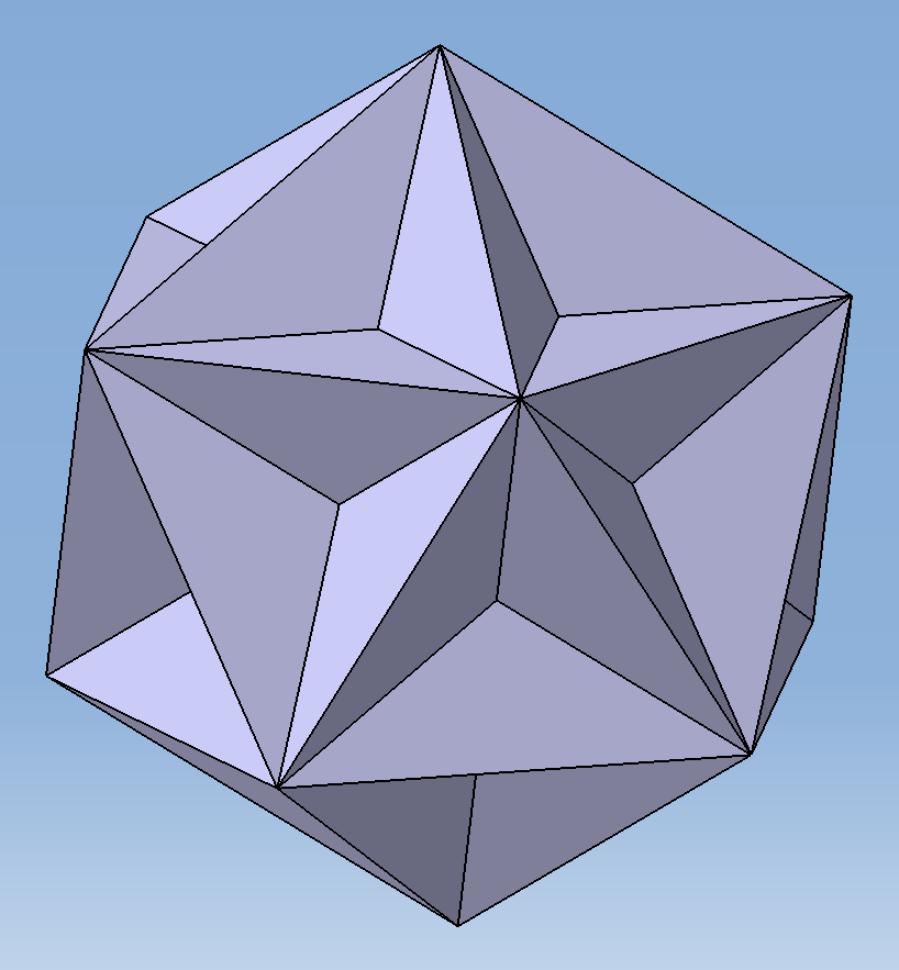 Great dodecahedron